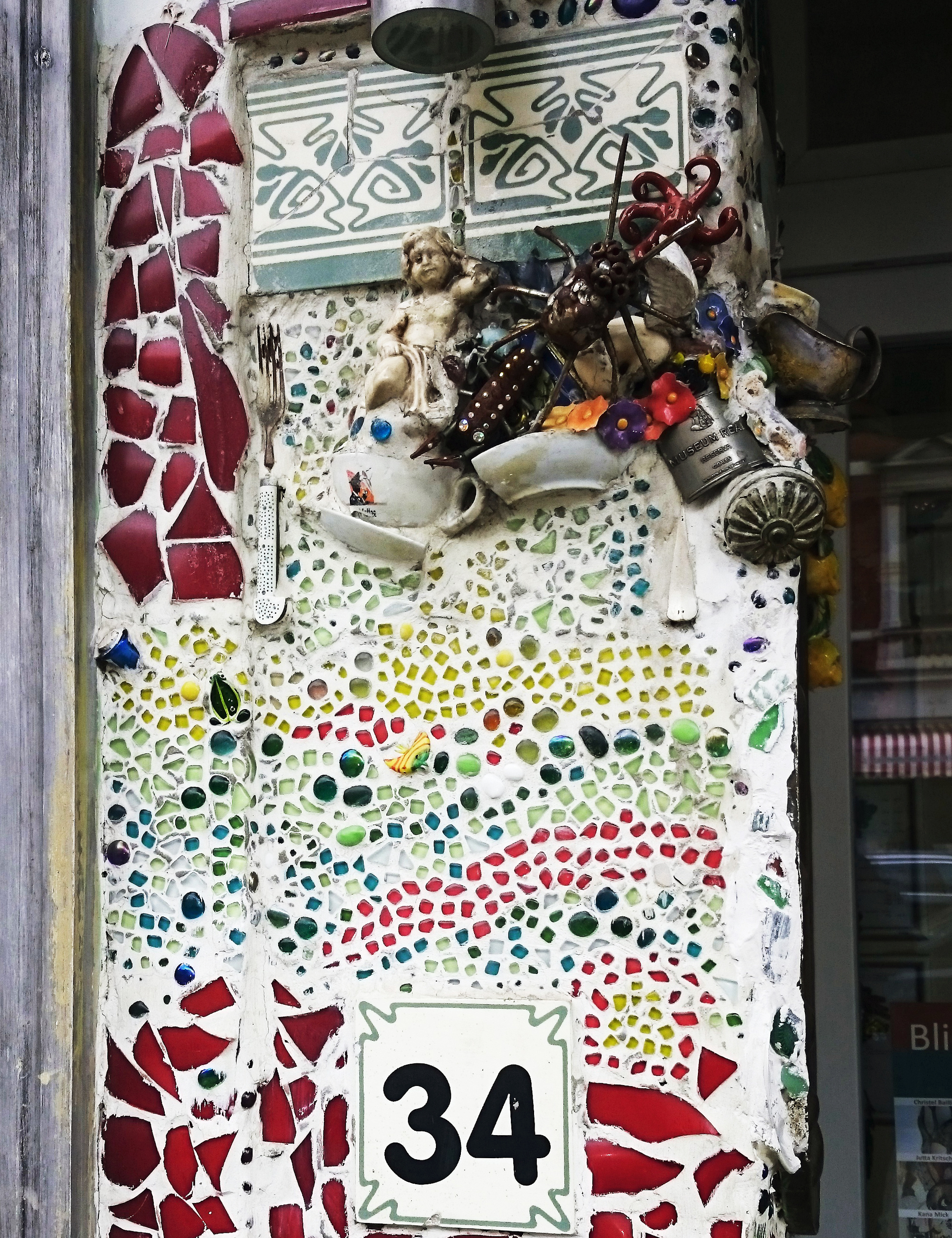 Assemblage as part of a facade in Bremen, Germany